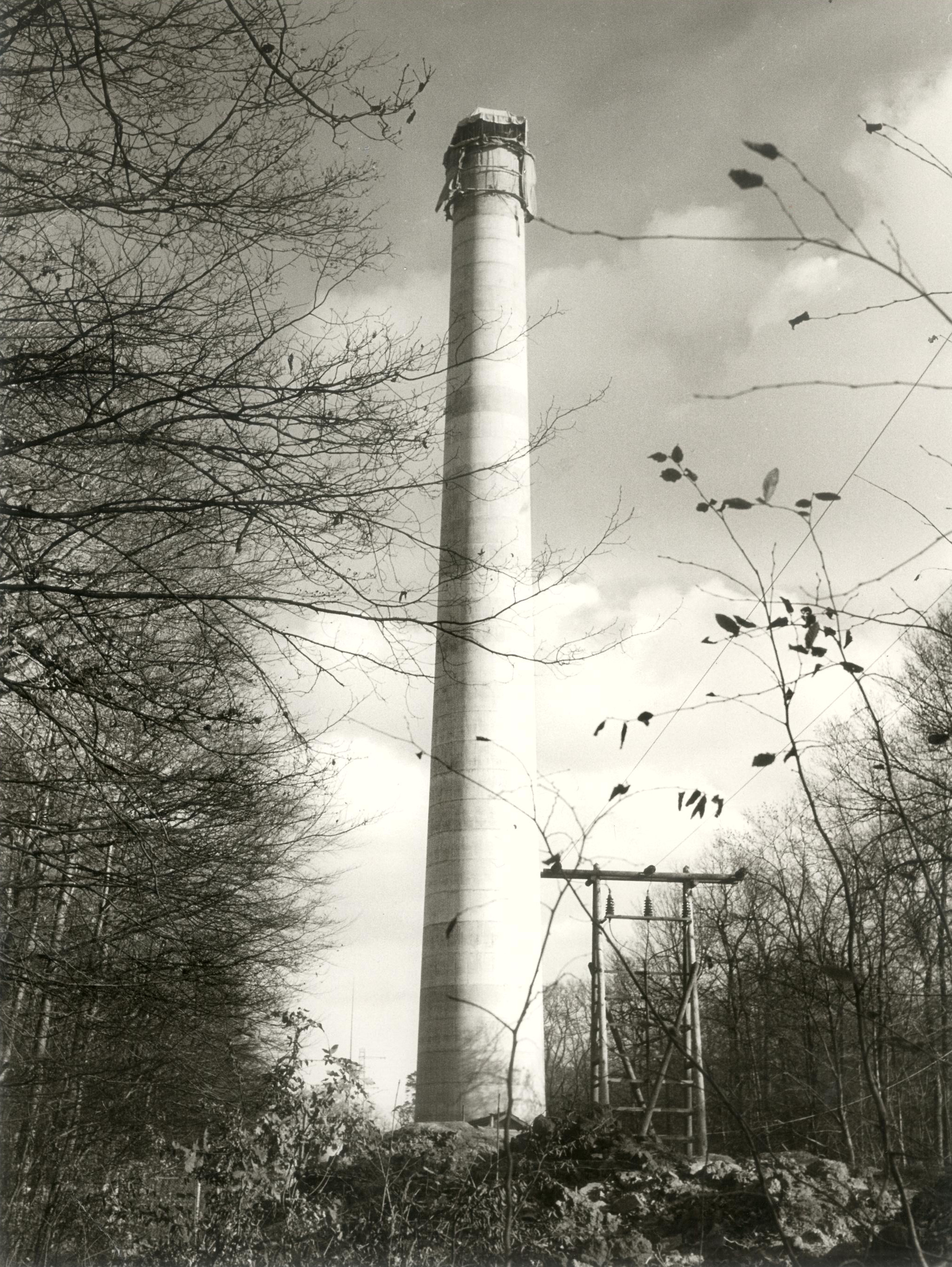 construction of televesion tower Stuttgart